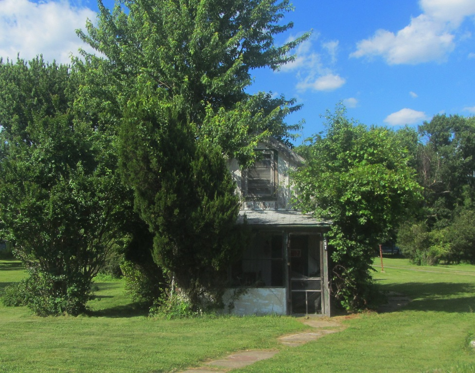 Maria Bacon House - Founder of Bacontown